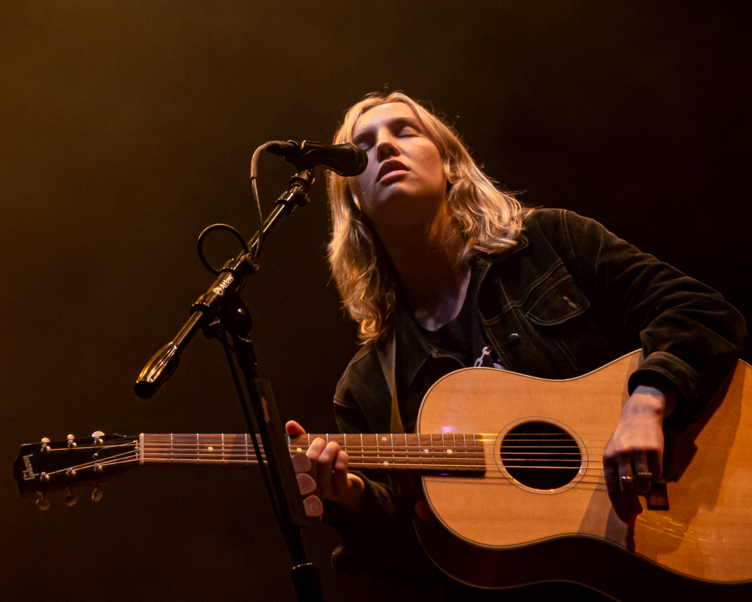 The Japanese House performing live at The Wiltern in Los Angeles on 10/12/2019.